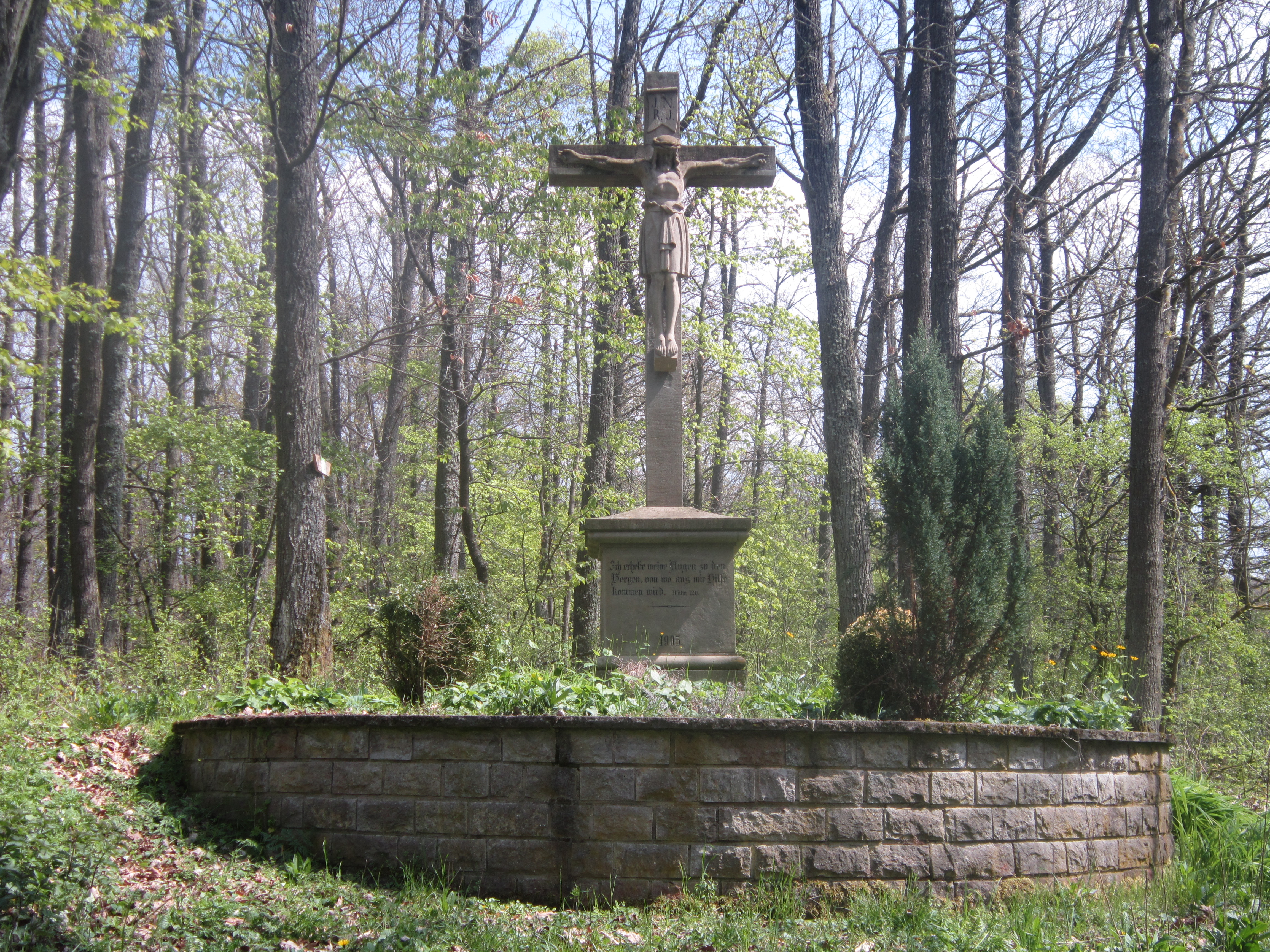 Stations of the Cross in Theinfeld, a quarter of the German town of Thundorf in Unterfranken in Lower Franconia (Bavaria).